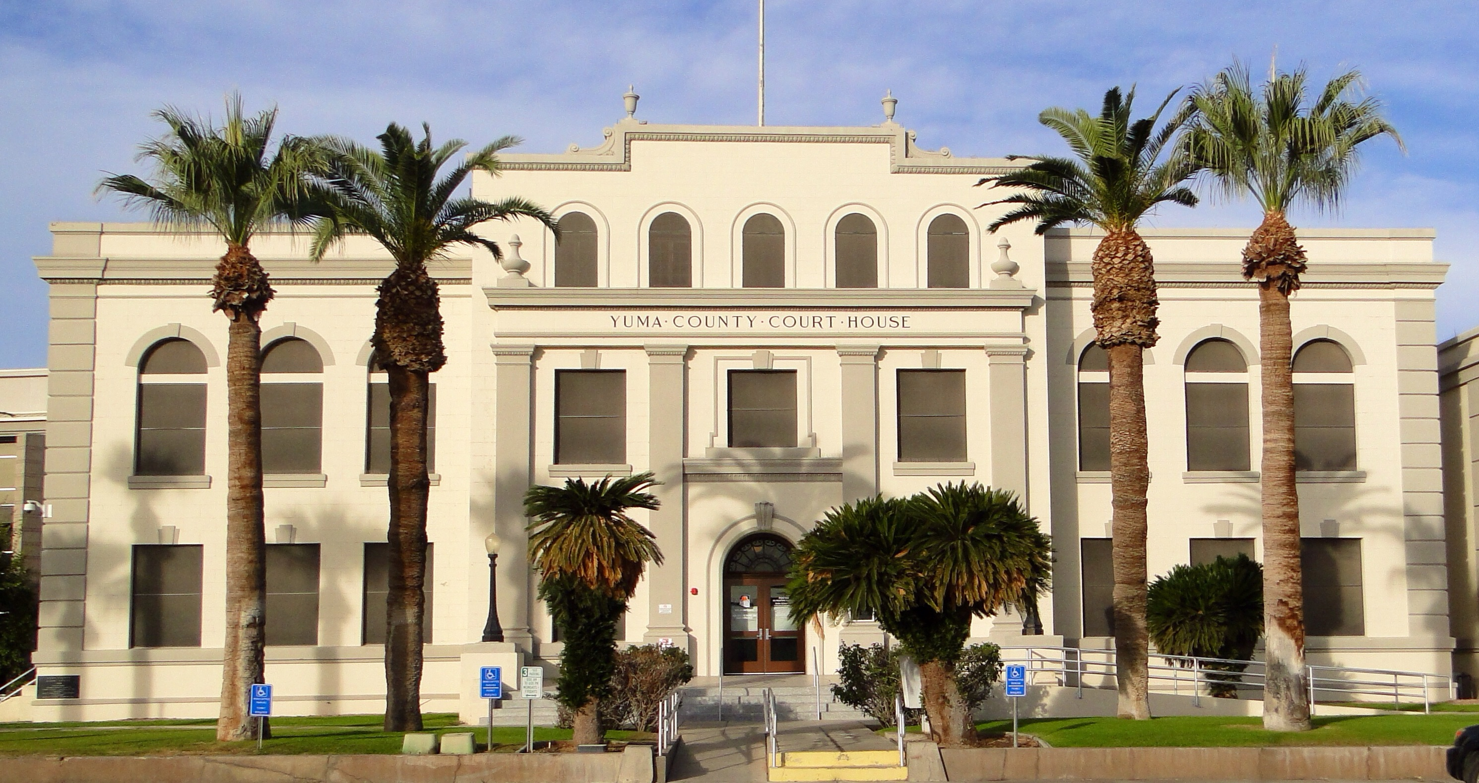 Yuma County Court House, 168 S. 2nd Avenue, Yuma, Arizona